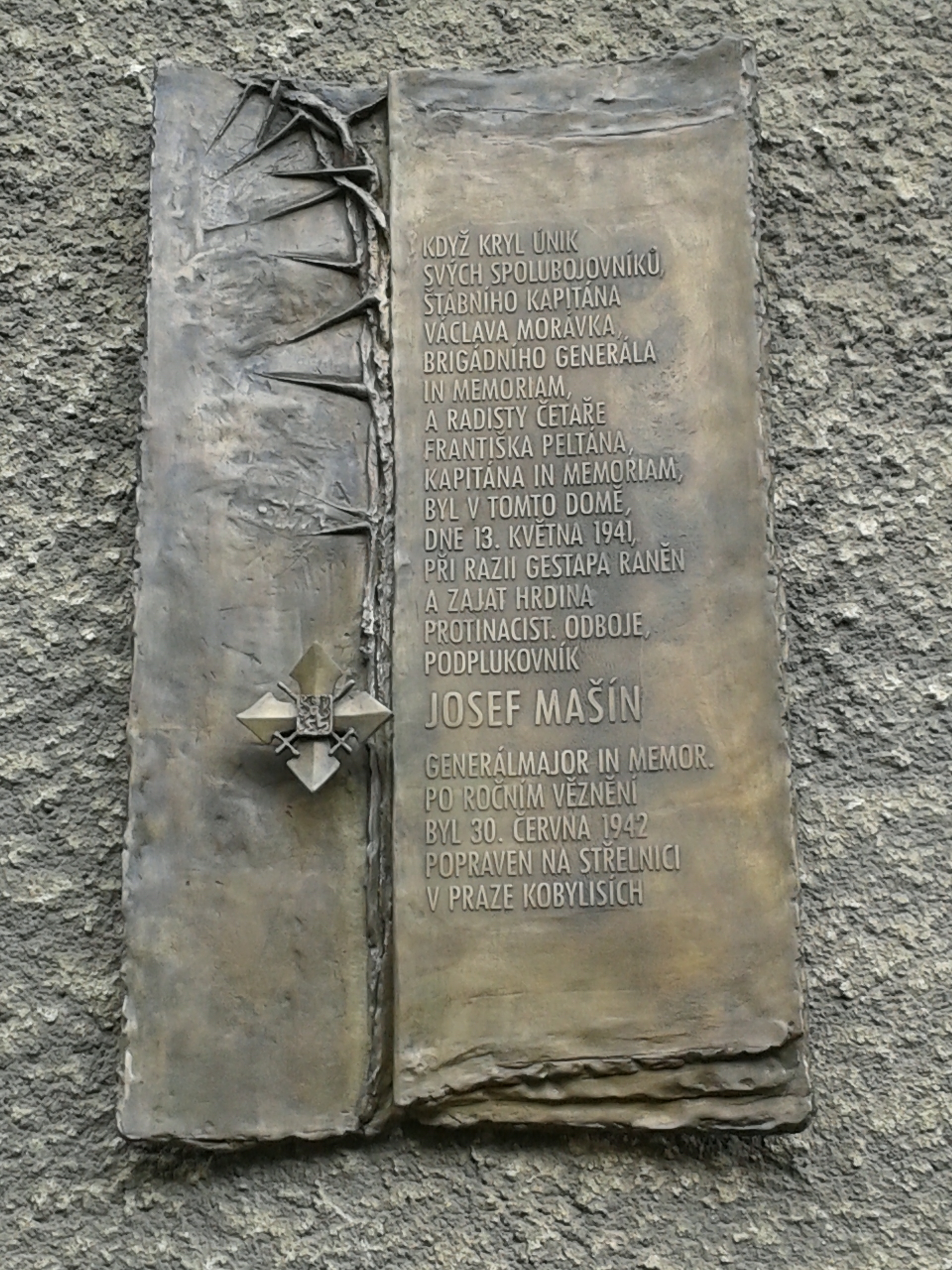 Commemorative plaque on the outside wall on the house in Čiklova Street number19 in Prague 4 - Nusle recalls the arrest of Lieutenant Colonel Josef Mašín on 13 May 1941.